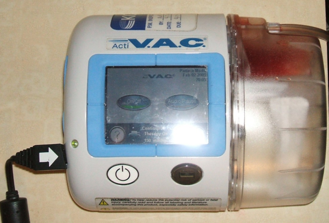 Application of a KCI Wound Vac dressing to a large wound